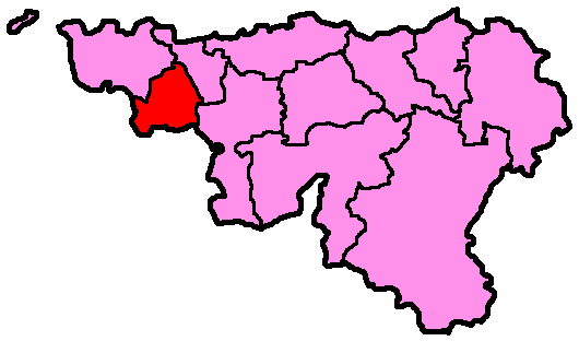 Location of the constituency of Mons in Wallonia